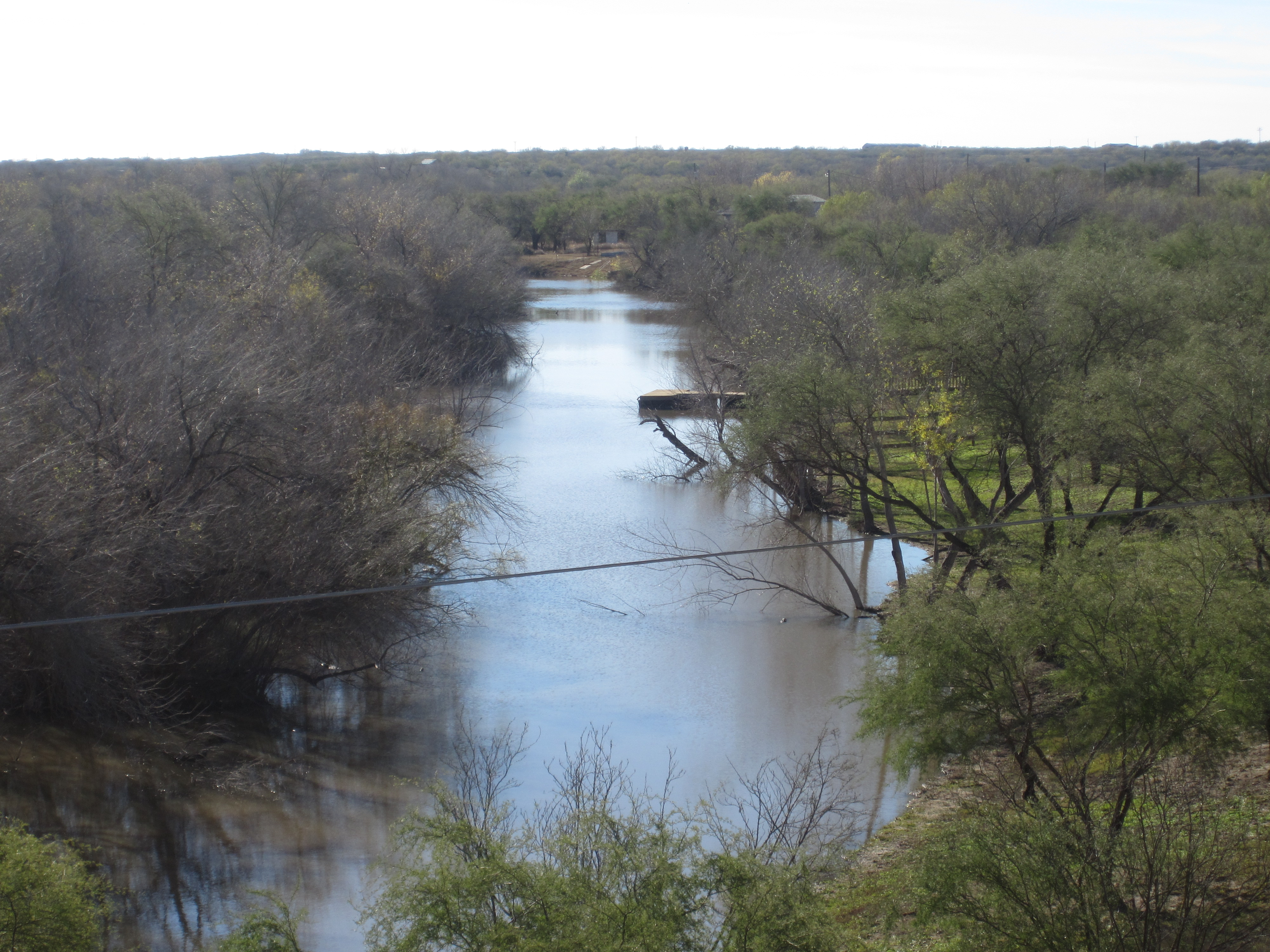 Higher level of water in Nueces River in Cotulla, TX